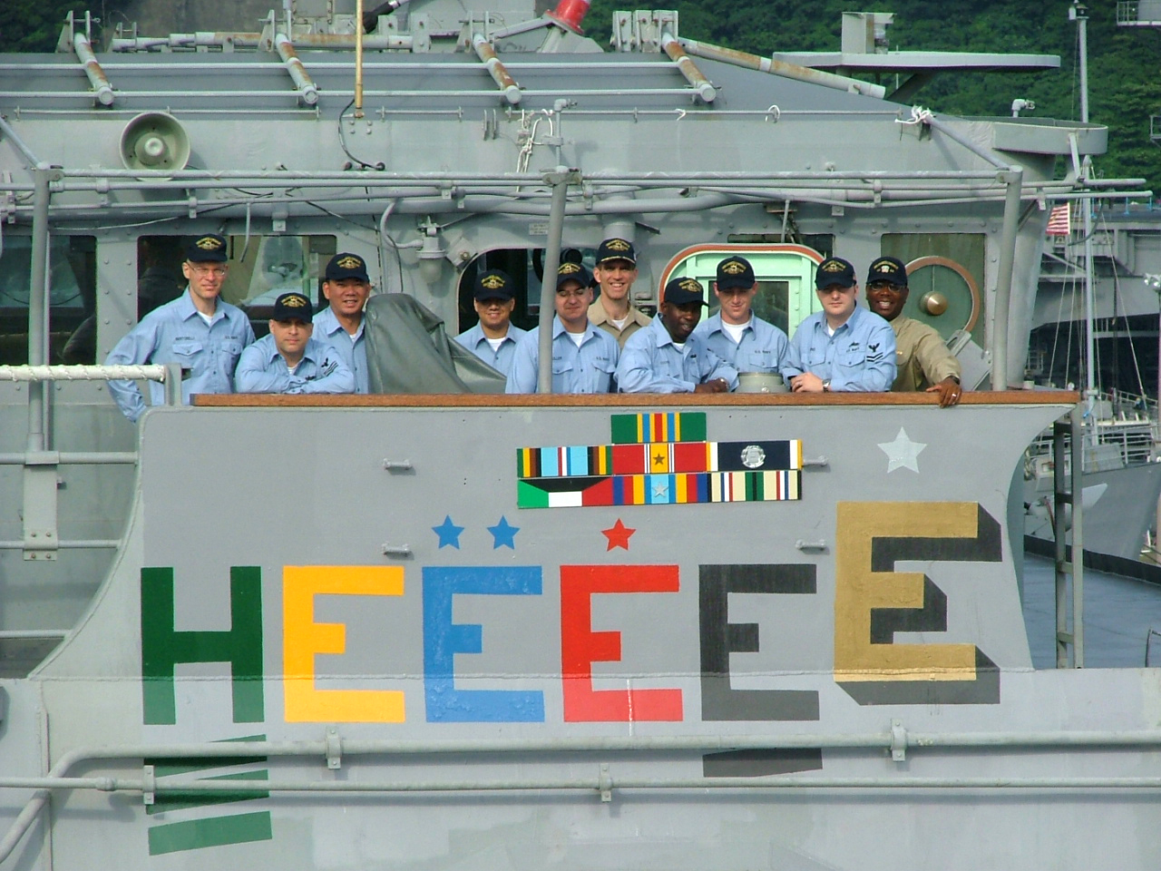 Yokosuka, Japan (July 12, 2004) – Crew members aboard the guided missile cruiser USS Chancellorsville (CG 62) assemble on the ship’s bridge wing to admire the painting of a gold “E”. The gold color represents earning the coveted Battle “E” award for five consecutive years. U.S. Navy photo (RELEASED)